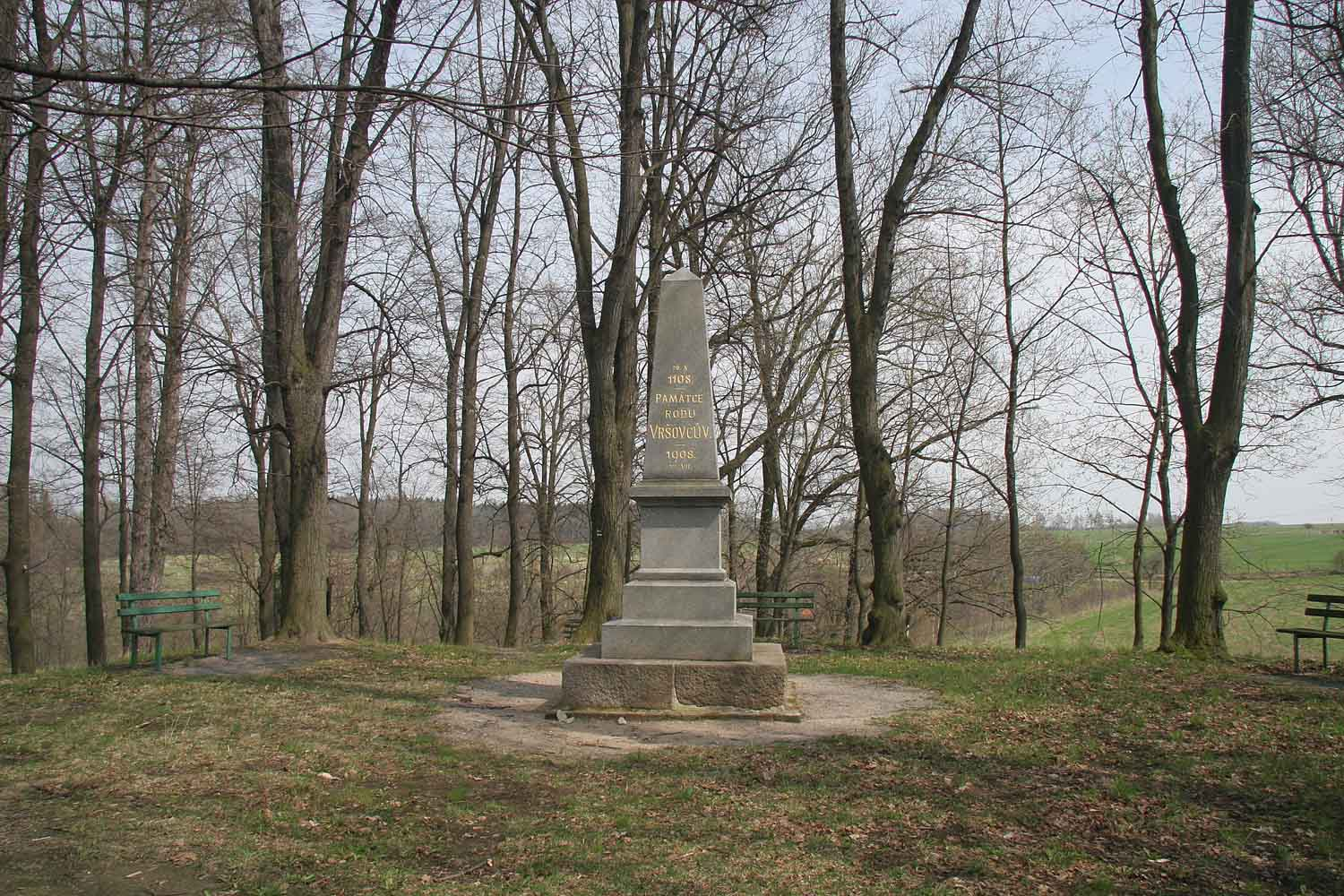 Memorial of Vršovci in Vraclav, Czech Republic, autor:Zp